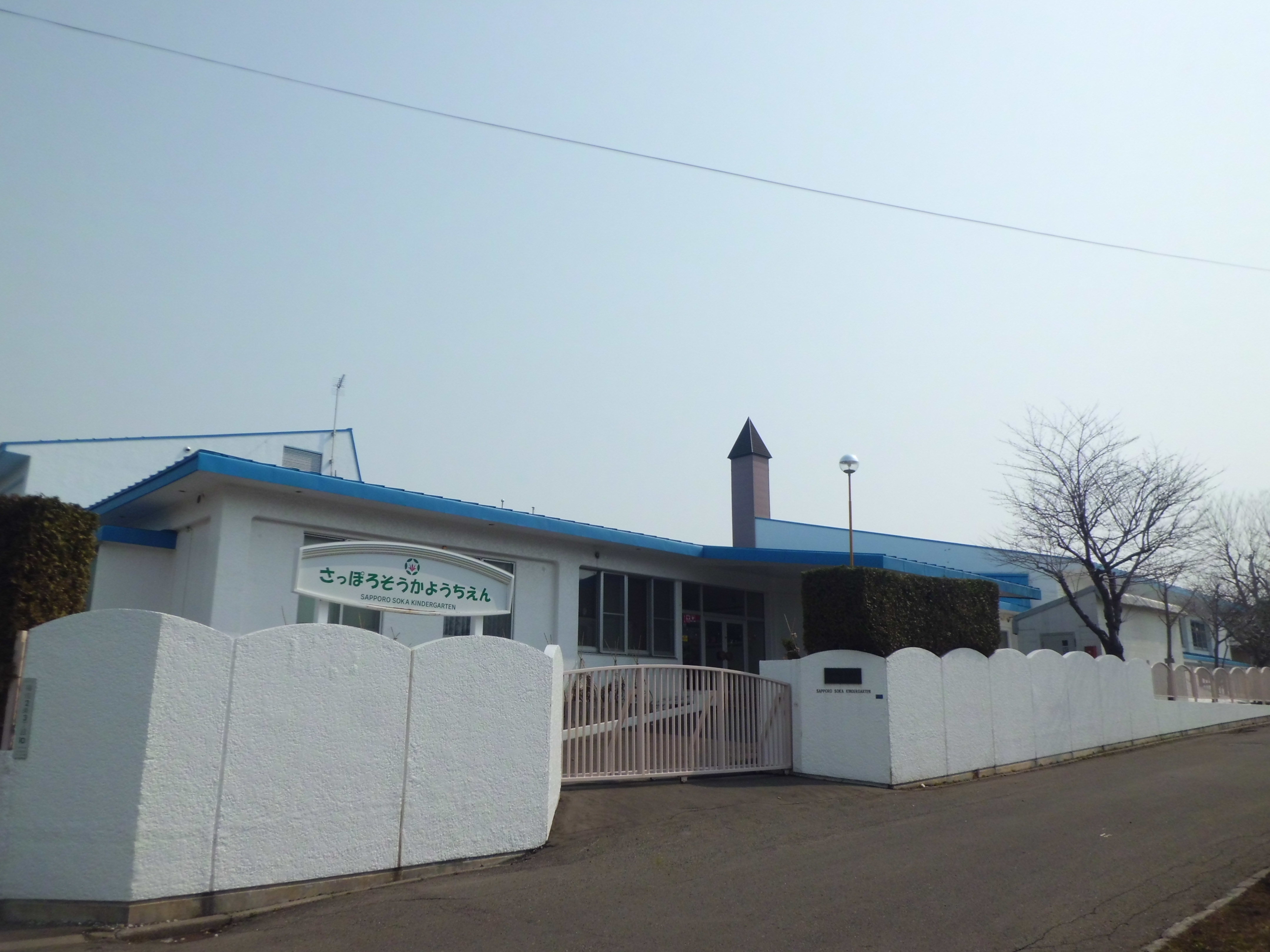 Sapporo Soka Kindergarten